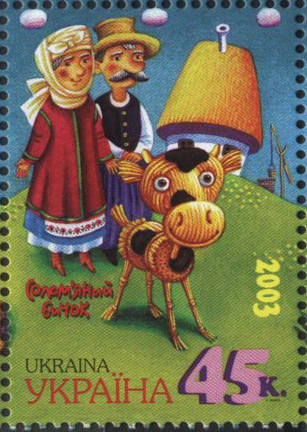 Stamps of Ukraine, 2003